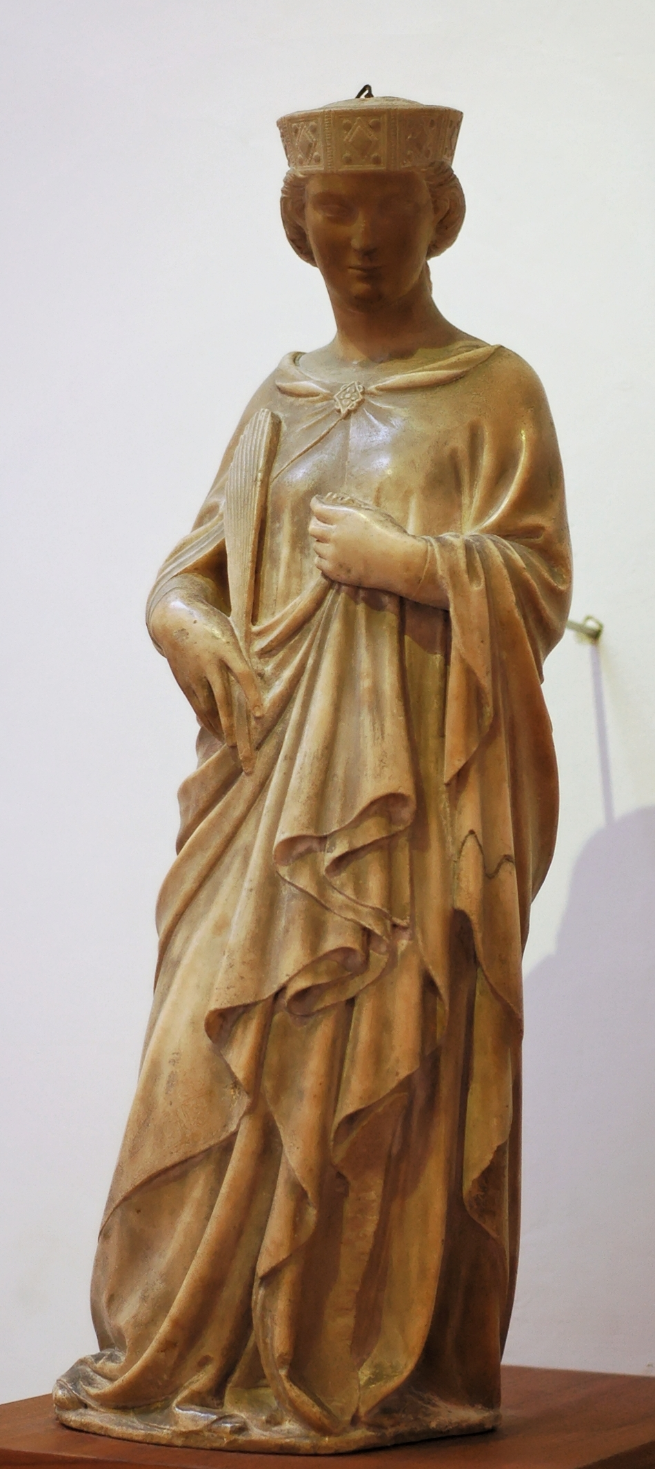 Statuette of St. Reparata, originally paired with one of the Christ, from the Baptistery or the Duomo of Florence